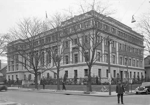 The Central Library Building at Parsons Boulevard and 89th Avenue, Jamaica, Queens, November 14, 1935. The Queens Borough Public Library occupied this building from its opening in 1929 until the opening of the present Central Library at Merrick Boulevard and 89th Avenue in 1966. From 1971 to 2003 the building was the site of the Queens County Family Court. The building is currently undergoing demolotion. A new 12-story mixed use structure will retain the old building's facade.